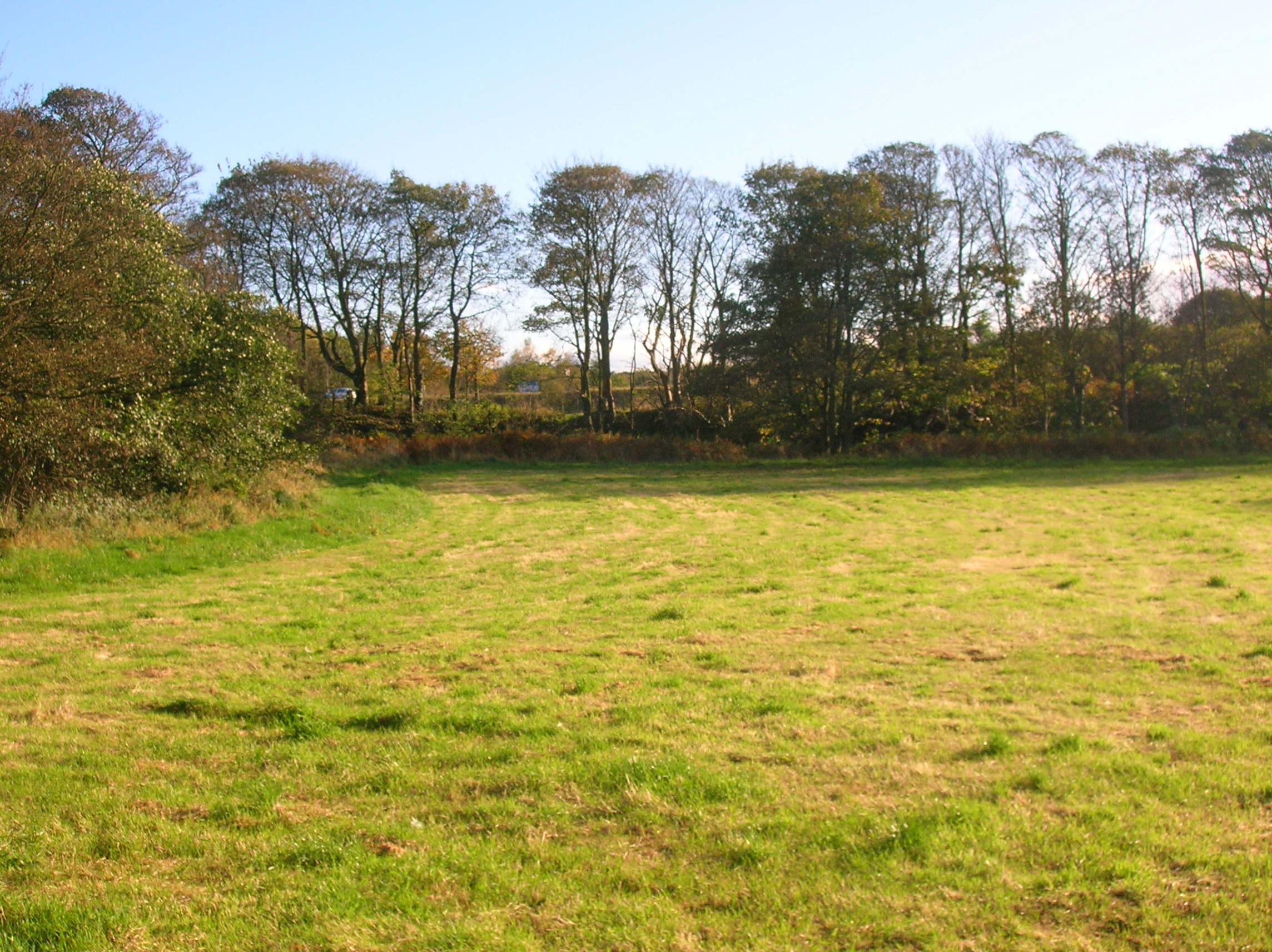 The site of Lady Jane's cottage, Eglinton Country Park, North Ayrshire, Scotland.